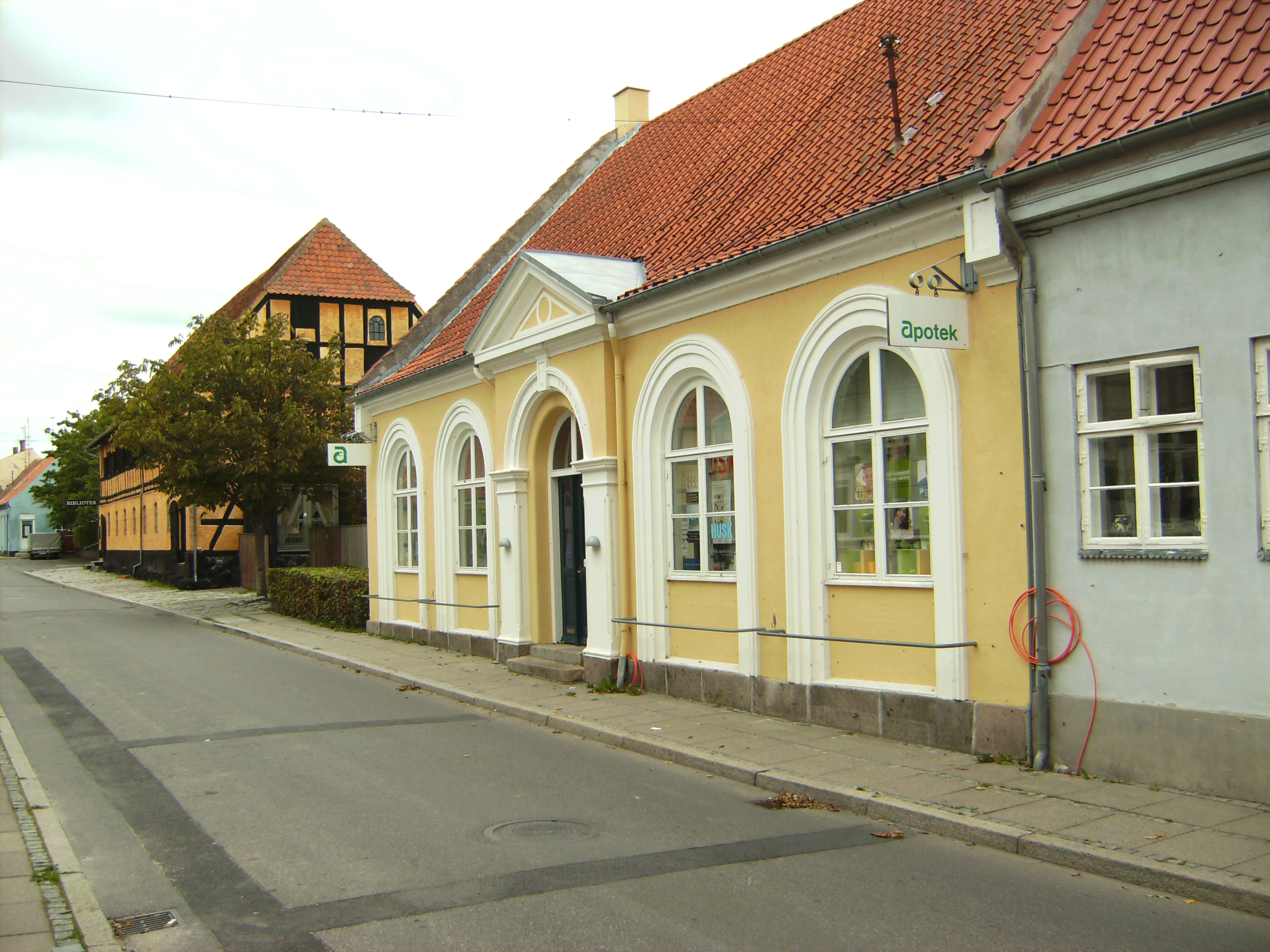 Pharmacy in Nysted, Denmark